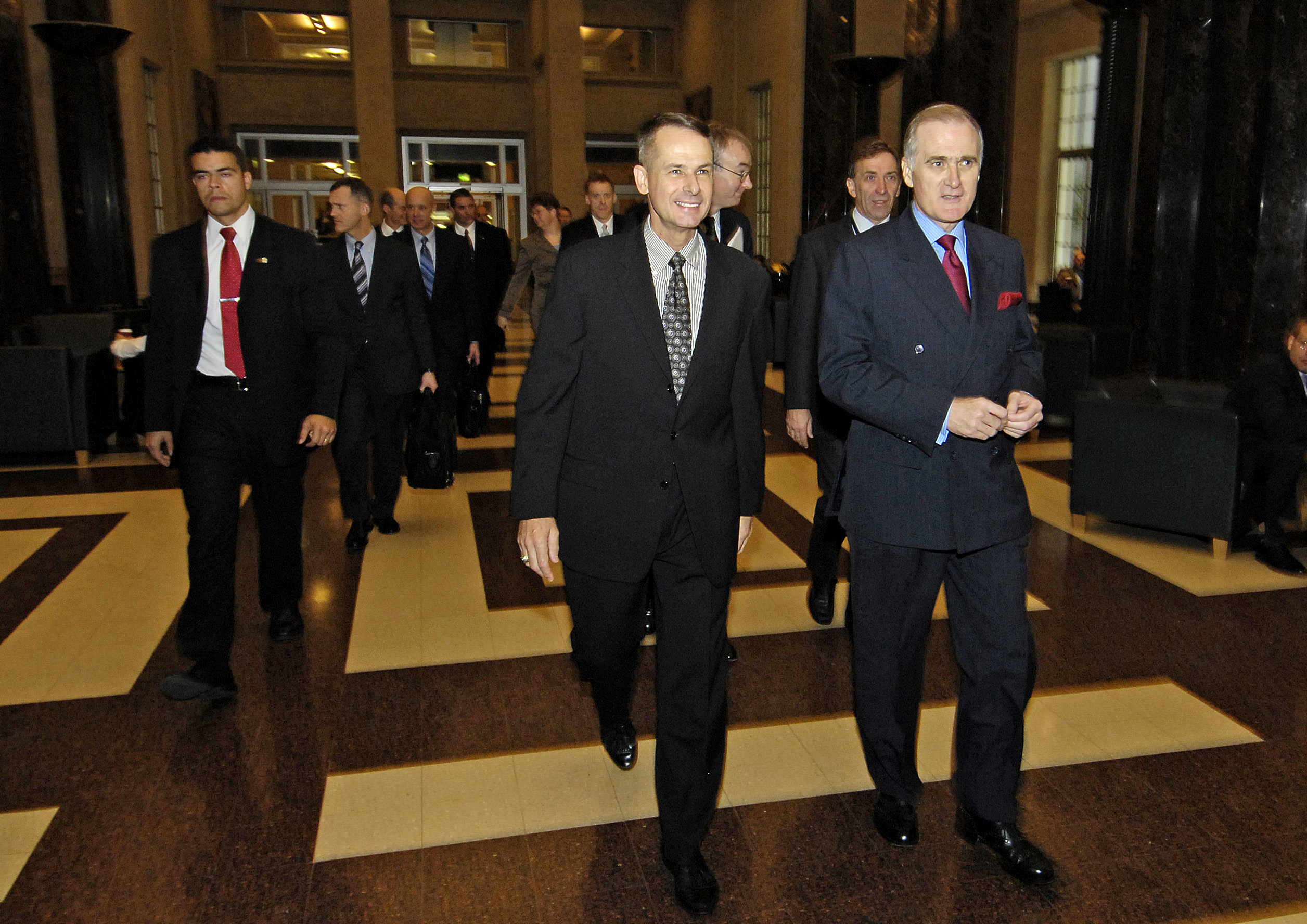 Chairman of the Joint Chiefs of Staff Marine Gen. Peter Pace and his British counterpart, Air Chief Marshal Sir Jock Stirrup, at the British Ministry of Defence in London.